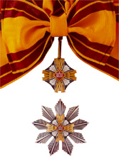 Source:[1]